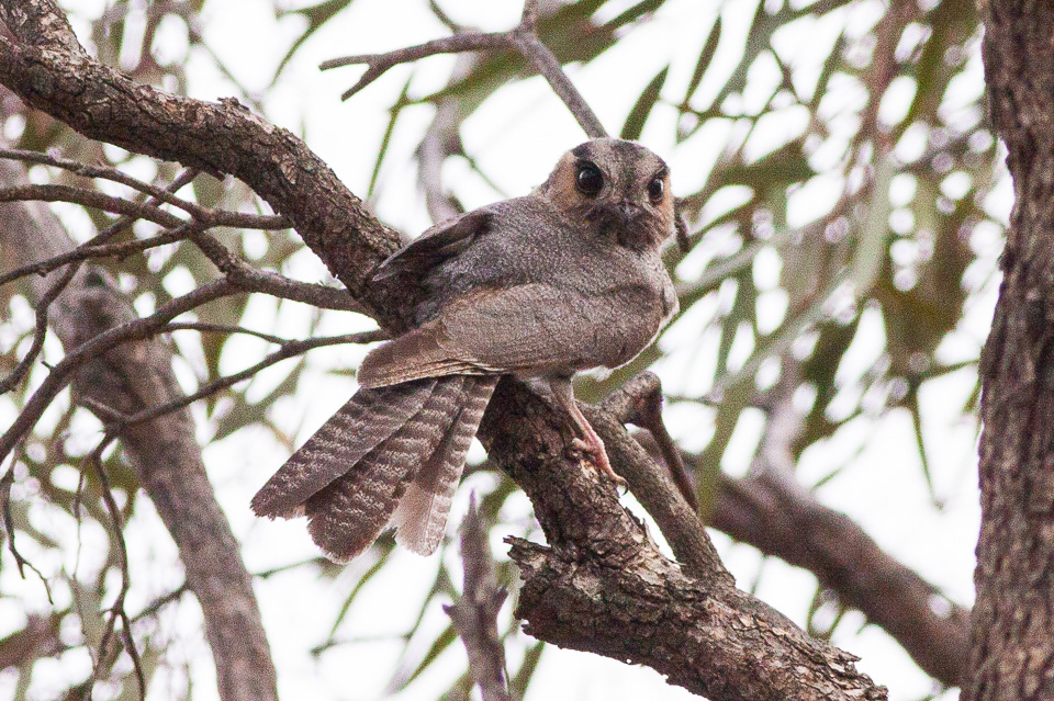 Australian Owlet-nightjar (Aegotheles cristatus)